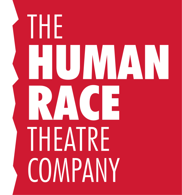 Current logo for HRTC